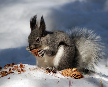 Abert's Squirrel (Sciurus aberti) eating a pinecone from a Ponderosa pine (its favorite food)